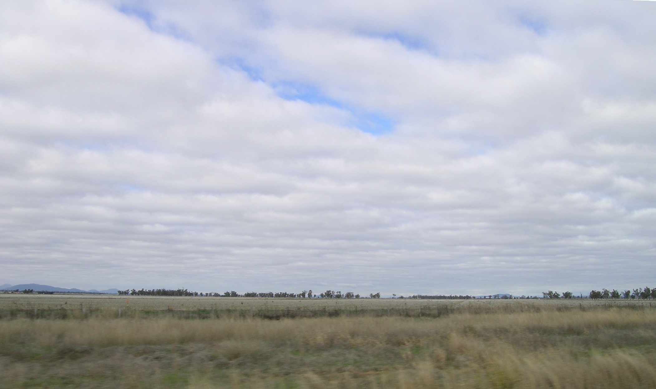 Liverpool Plains near Carroll, NSW